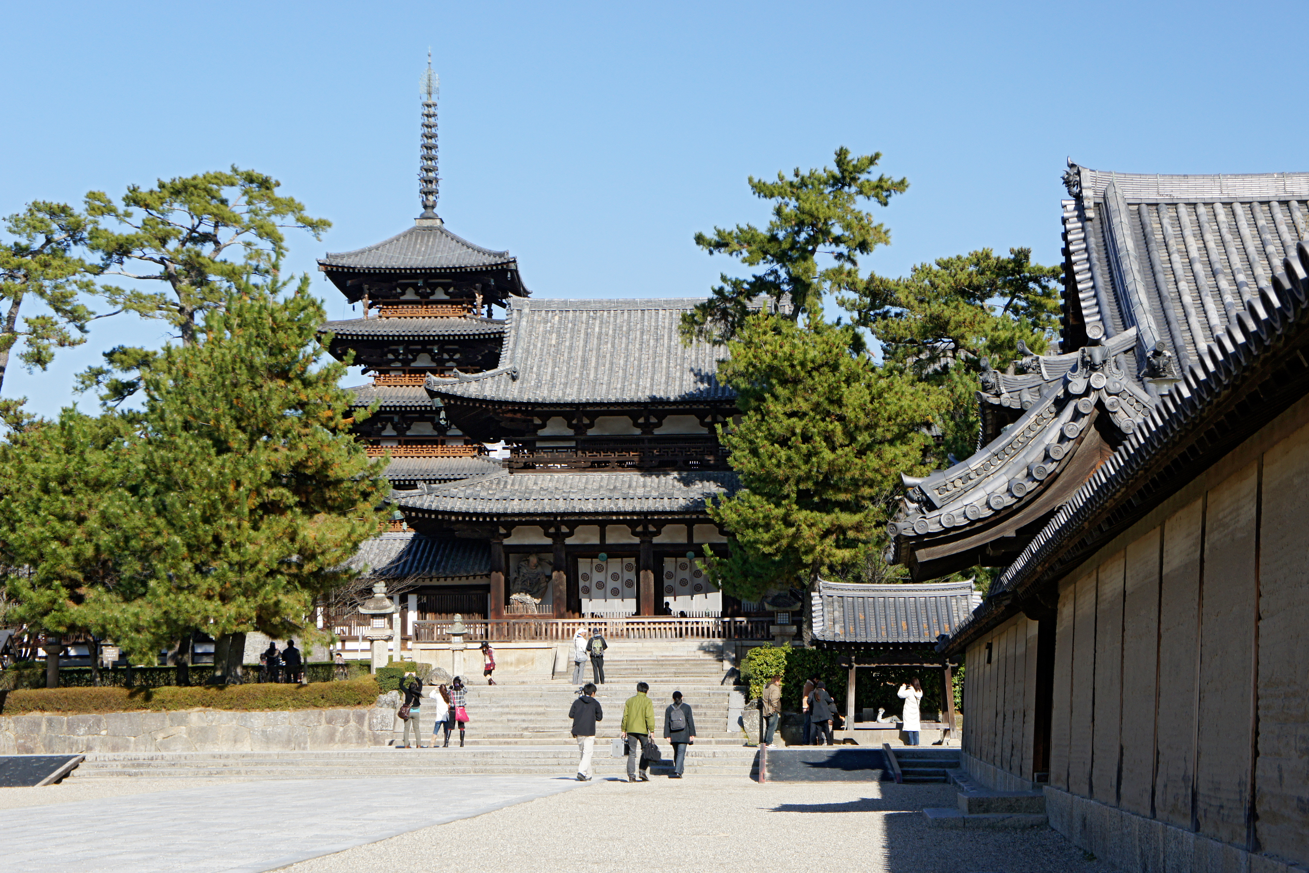 Inner Gate and Five-storied Pagoda of Hōryū-ji are Japan's National Treasures. Hōryū-ji is a Buddhist temple in Ikaruga, Nara prefecture, Japan. It was registered as part of the UNESCO World Heritage Site "Buddhist Monuments in the Hōryū-ji Area".